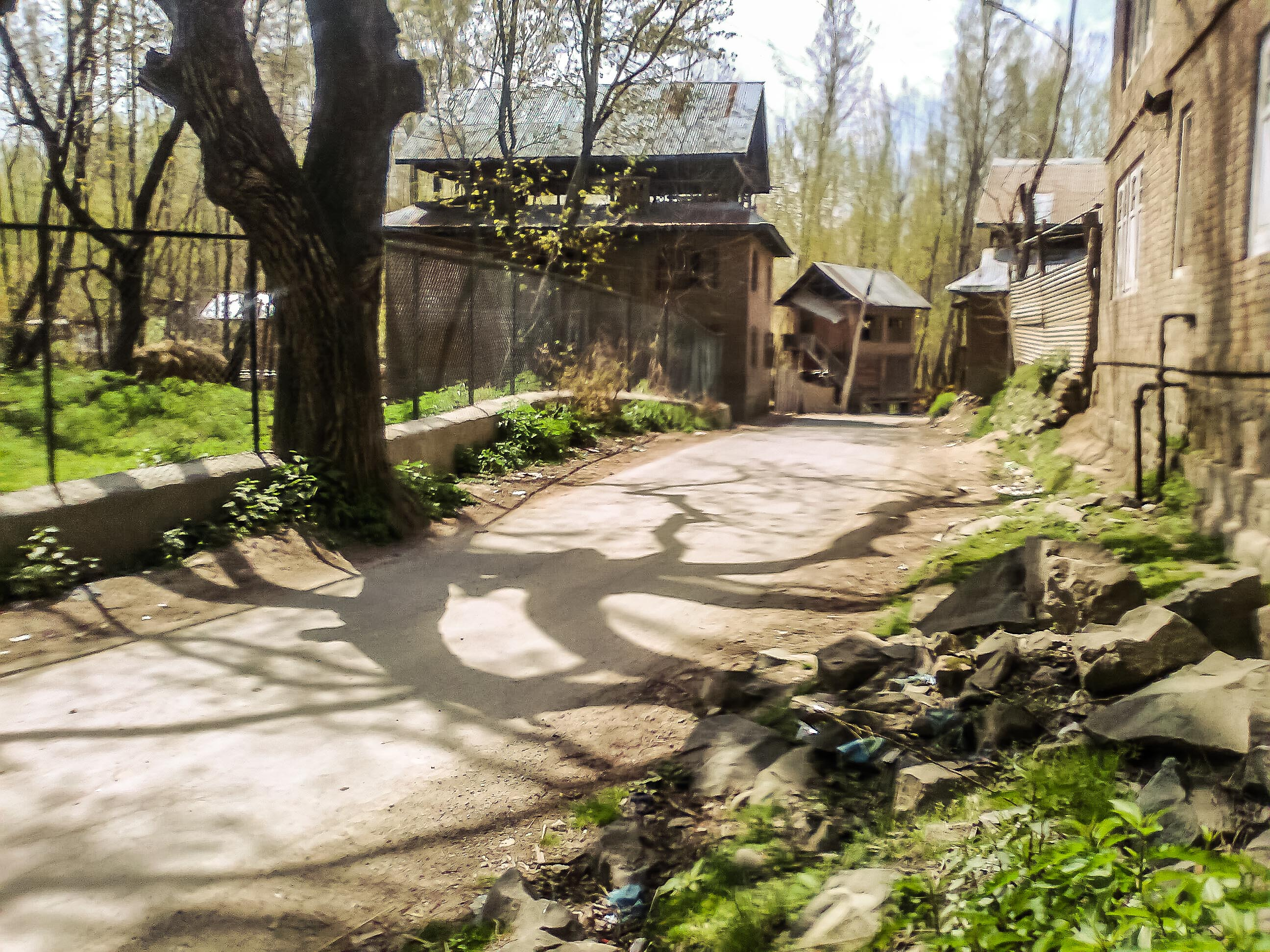 Veeri Road